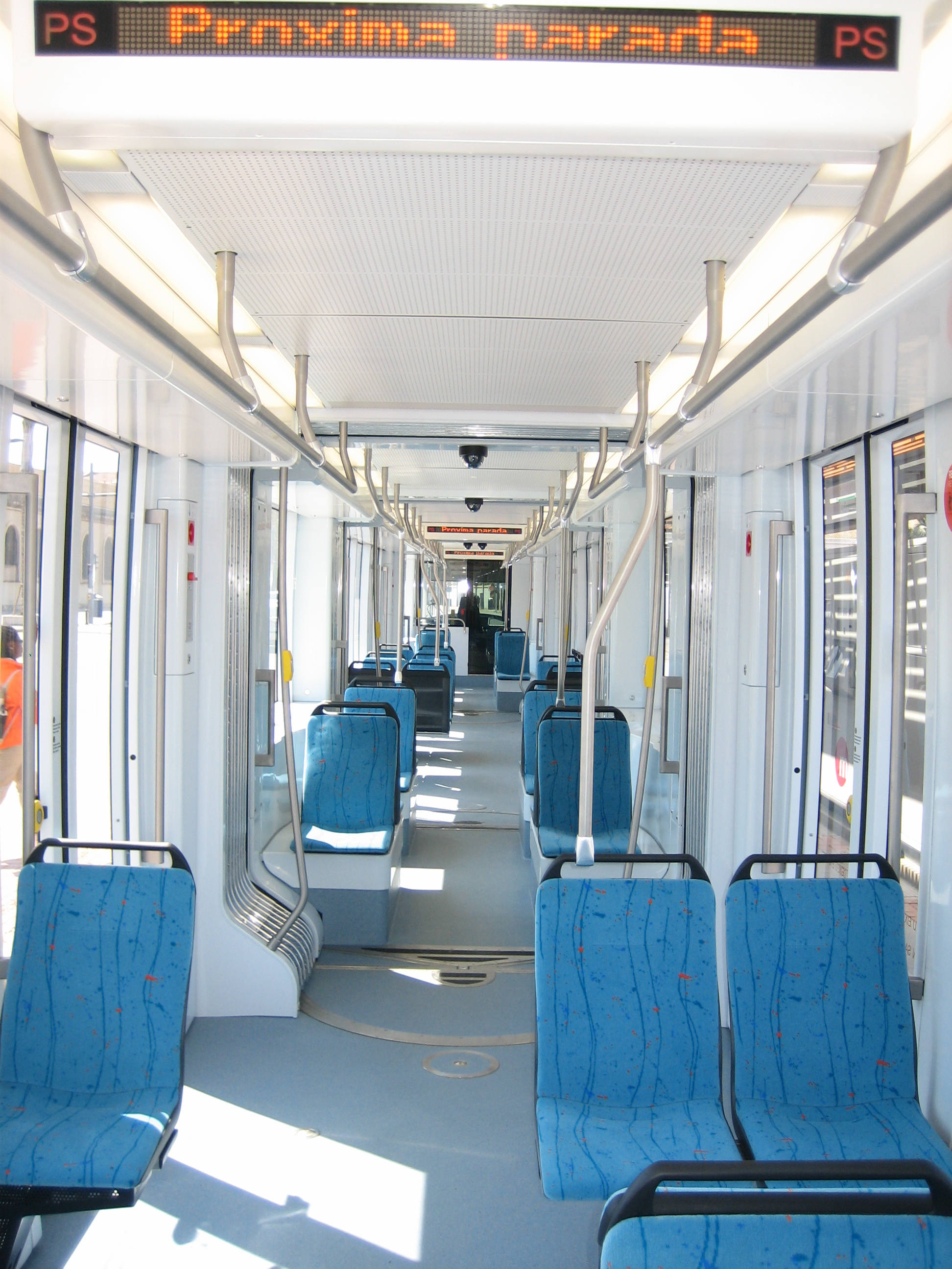 Bombardier Flexity Outlook Cityrunner interior in Valencia Spain, part of Metrovalencia system that combines metro and tram.